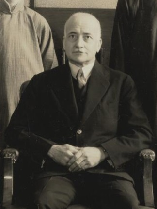 Vivian Gordon Bowden, Australian Trade Commissioner in Shanghai, May 1937. Cropped version of larger photo: File:Australian Trade Commission staff, Shanghai, May 1937.jpg